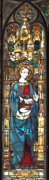 Glass window detail with Saints Madrona, in the Town Council of Barcelona, by Antoni Rigalt